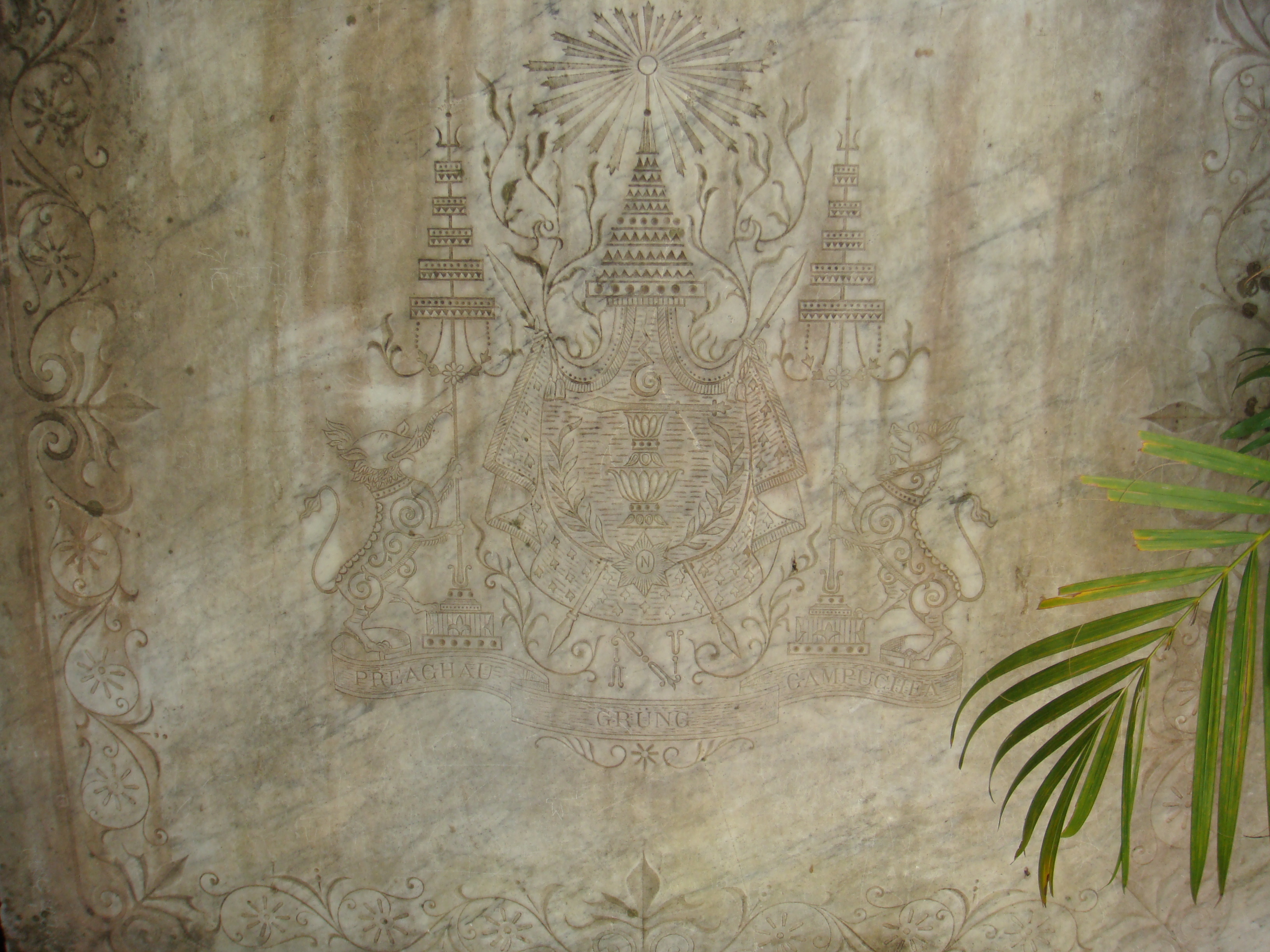 A stone engraving of the coat of arms of Cambodia.